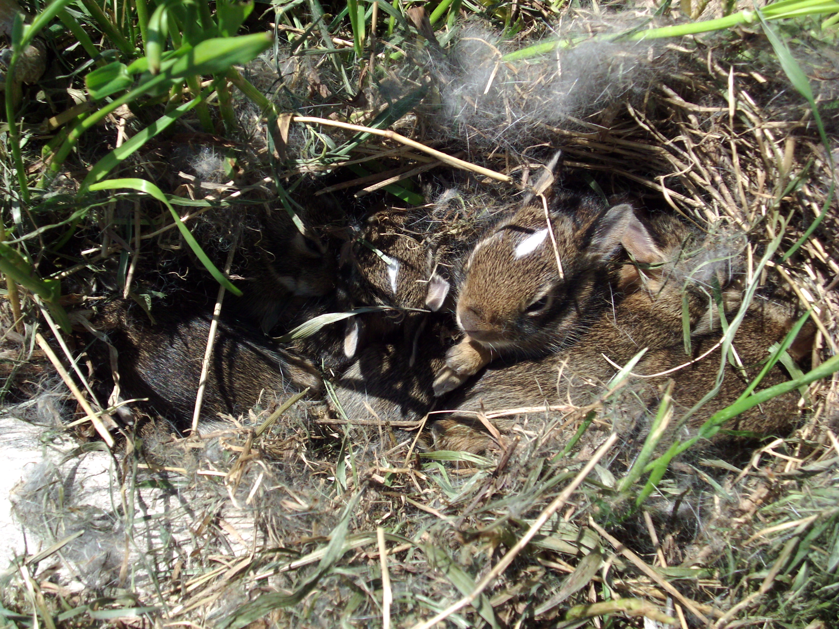 Eastern Cottontail Rabbit nest in yard near Alpena, Michigan, USA. One week after first discovery.